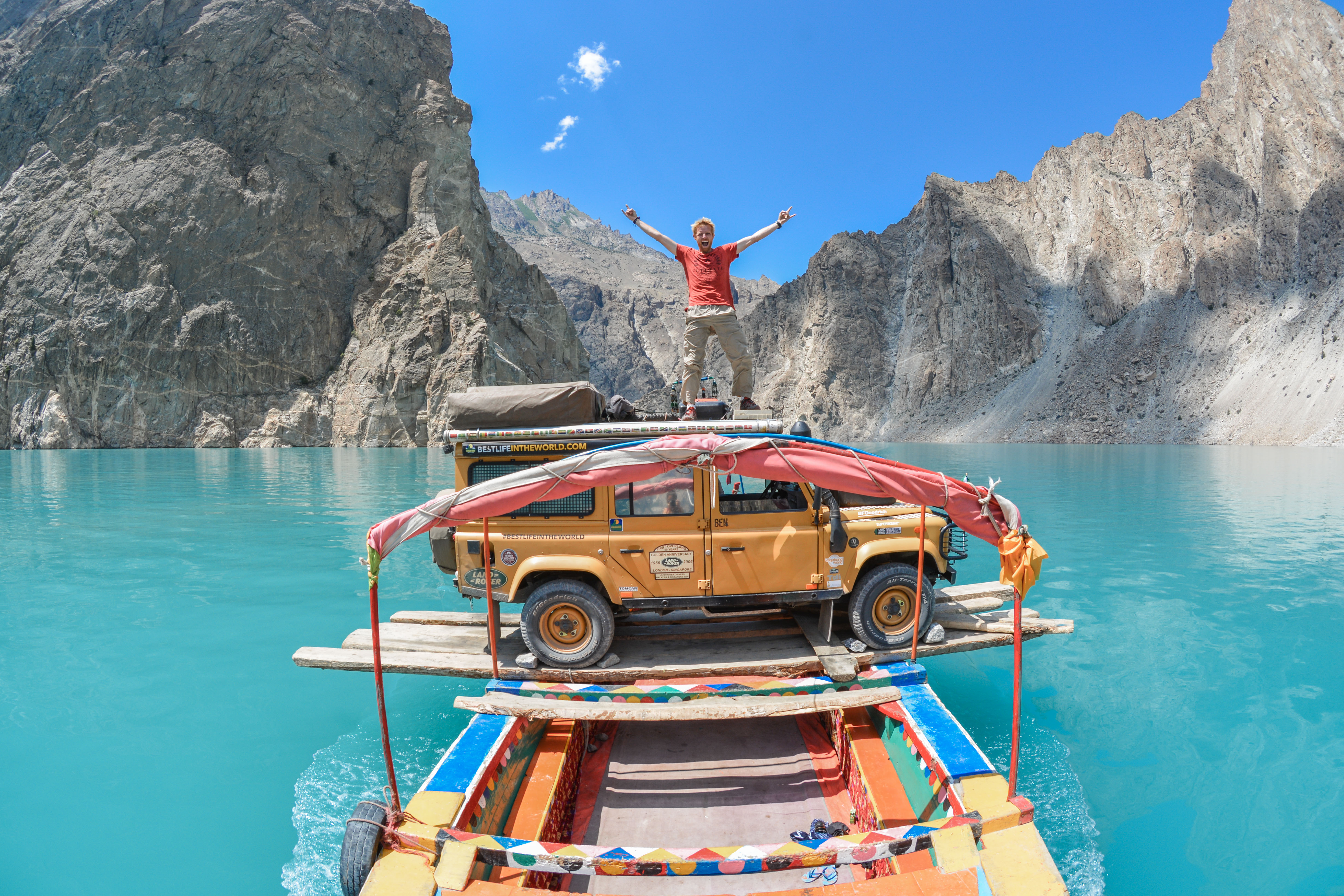 Since the lake was formed the only means of crossing was by loading vehicles onto wooden boats. In 2015 the Chinese since built a road tunnel that opened in September 2015.